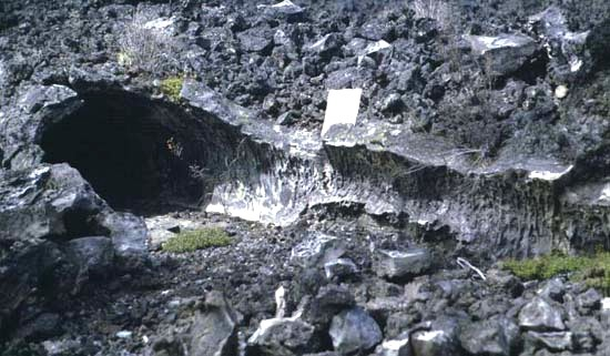 volcanic tree mold in Newberry National Volcanic Monument, Oregon